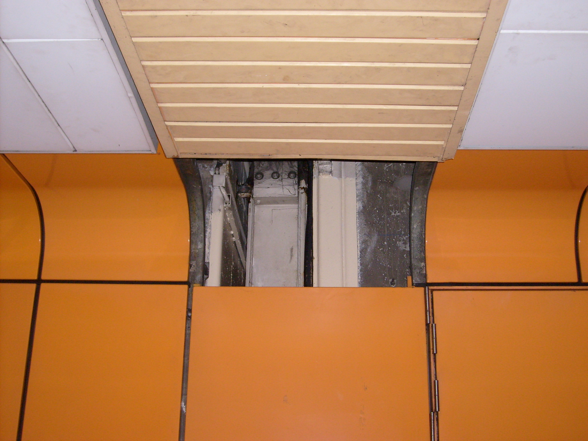 A subway blast shelter in Singapore. Some panels were removed during maintenance work, revealing a sliding blast door.